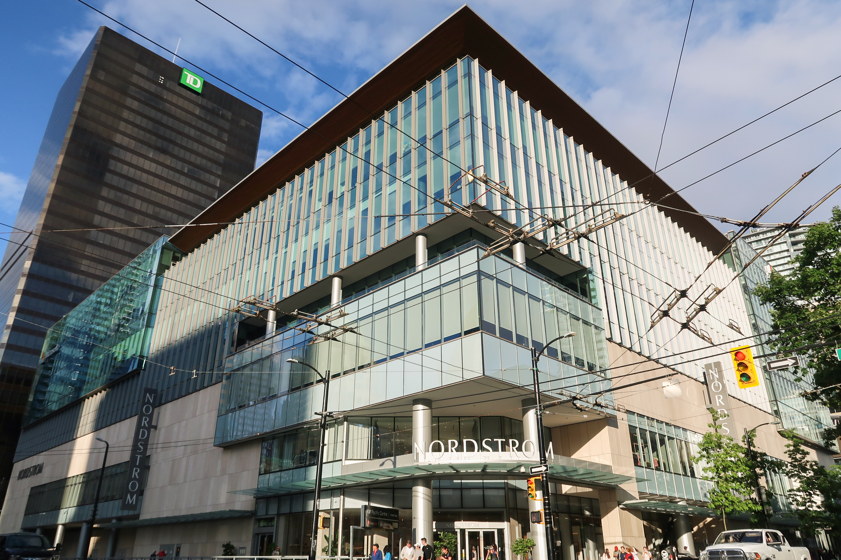 Nordstrom Pacific Centre